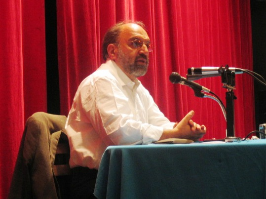 AbdolKarim Soroush lecturing in Sharif University